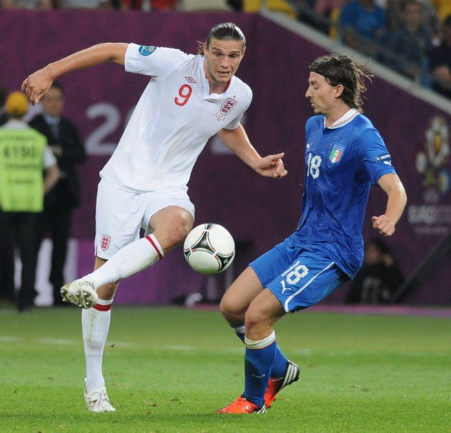 Andy Carroll and Riccardo Montolivo at Euro 2012 match England-Italy